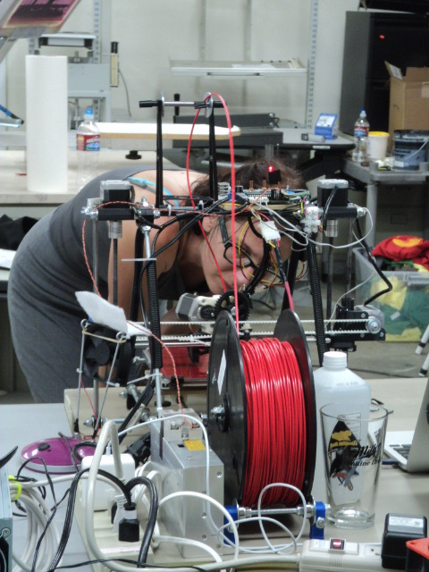 An organizer examines a project at the initial Maker Meetup held in Garden City, Idaho.